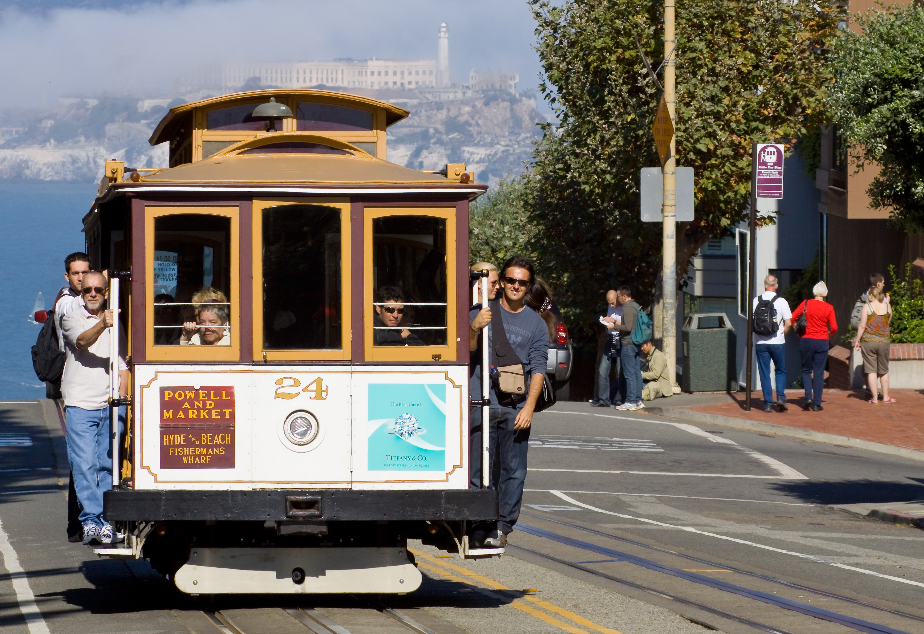 Cable Car of the Powell-Hyde line in San Francisco. In the background Alcatraz Island can be seen.